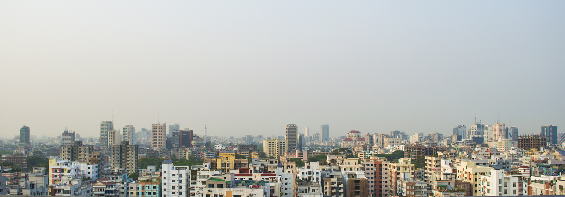 Partial view of Gulshan & Mohakhali areas of Gulshan Thana in Dhaka, Bangladesh.